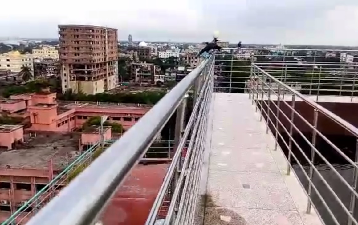 City view of Brahmanbaria